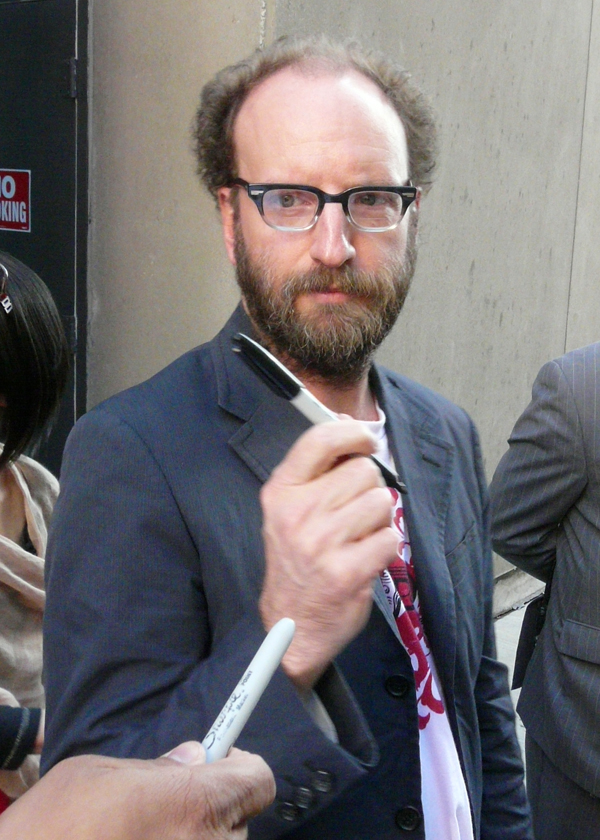 Director Steven Soderbergh and actor Benicio Del Toro Sign Autographs for fans at the Press conference for Che Check out More great pics and Video at